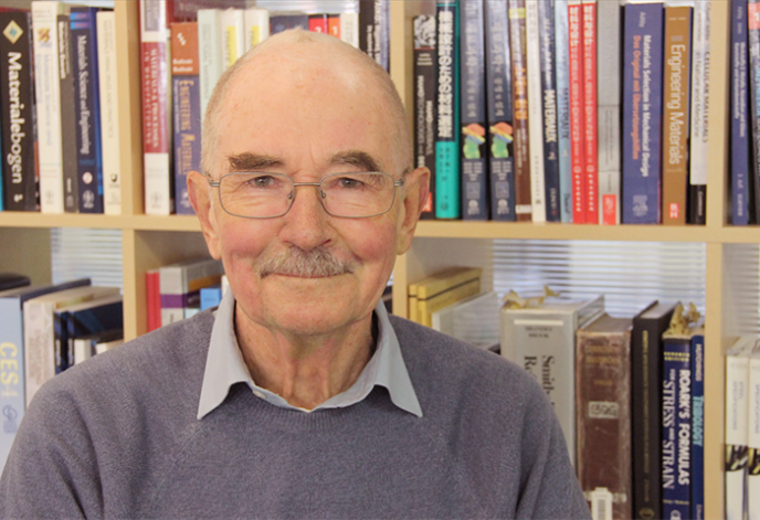 Picture of Michael F. Ashby